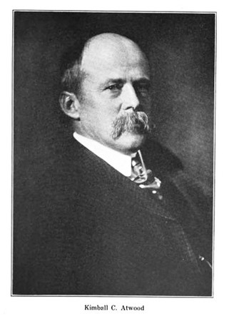 Insurance company founder and grapefruit magnate Kimball Chase Atwood (1853-1934), photo c. 1910